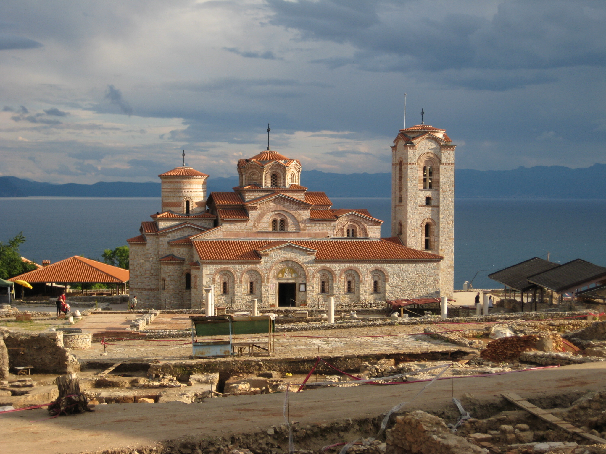 Saint Panteleimon monastery, Ohrid (Republic of Macedonia)